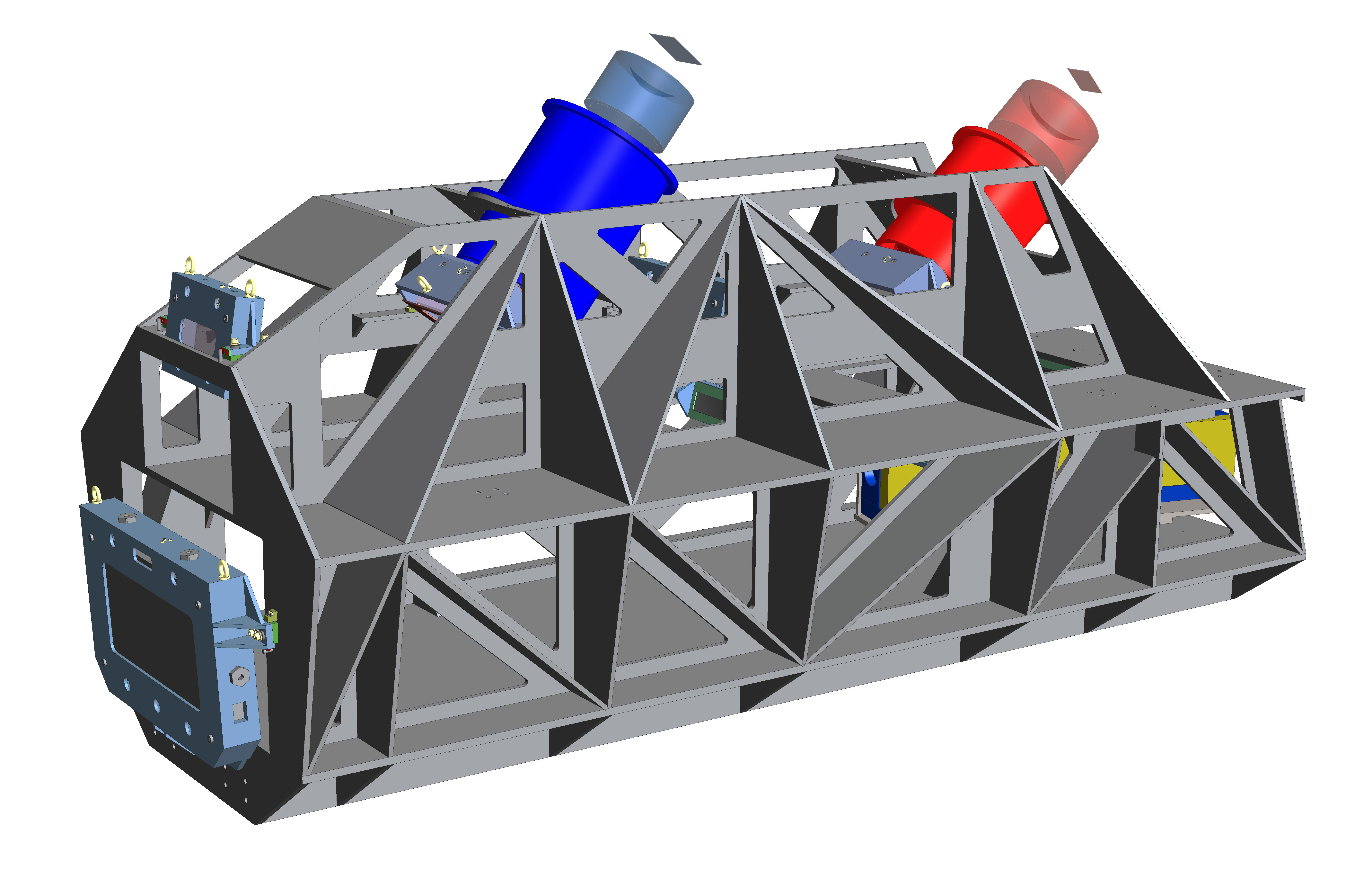 This picture shows an engineering rendering of the main mechanical and optical components of the ESPRESSO instrument on ESO’s Very Large Telescope at the Paranal Observatory in northern Chile. ESPRESSO will be an ultra-precise spectrograph that is capable of combining light from all four VLT Unit Telescopes to create a virtual 16-metre aperture telescope. The instrument is mounted inside a vacuum vessel that is in turn inside two thermal isolation enclosures to shield it from external disturbances. The extensions from the top of the instrument are parts of the instrument’s two cameras, one each for the red and blue parts of the spectrum.